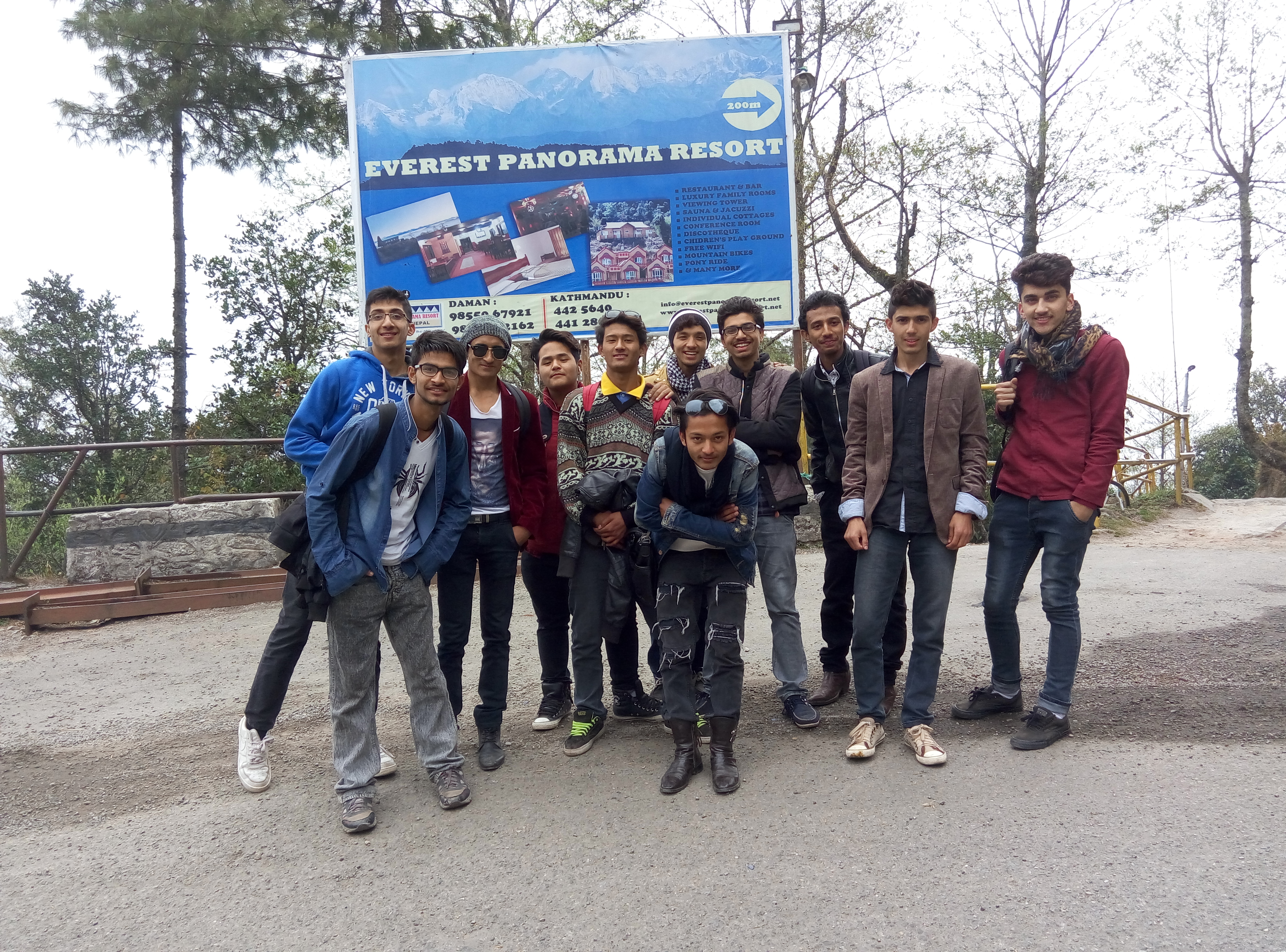 College students in Daman